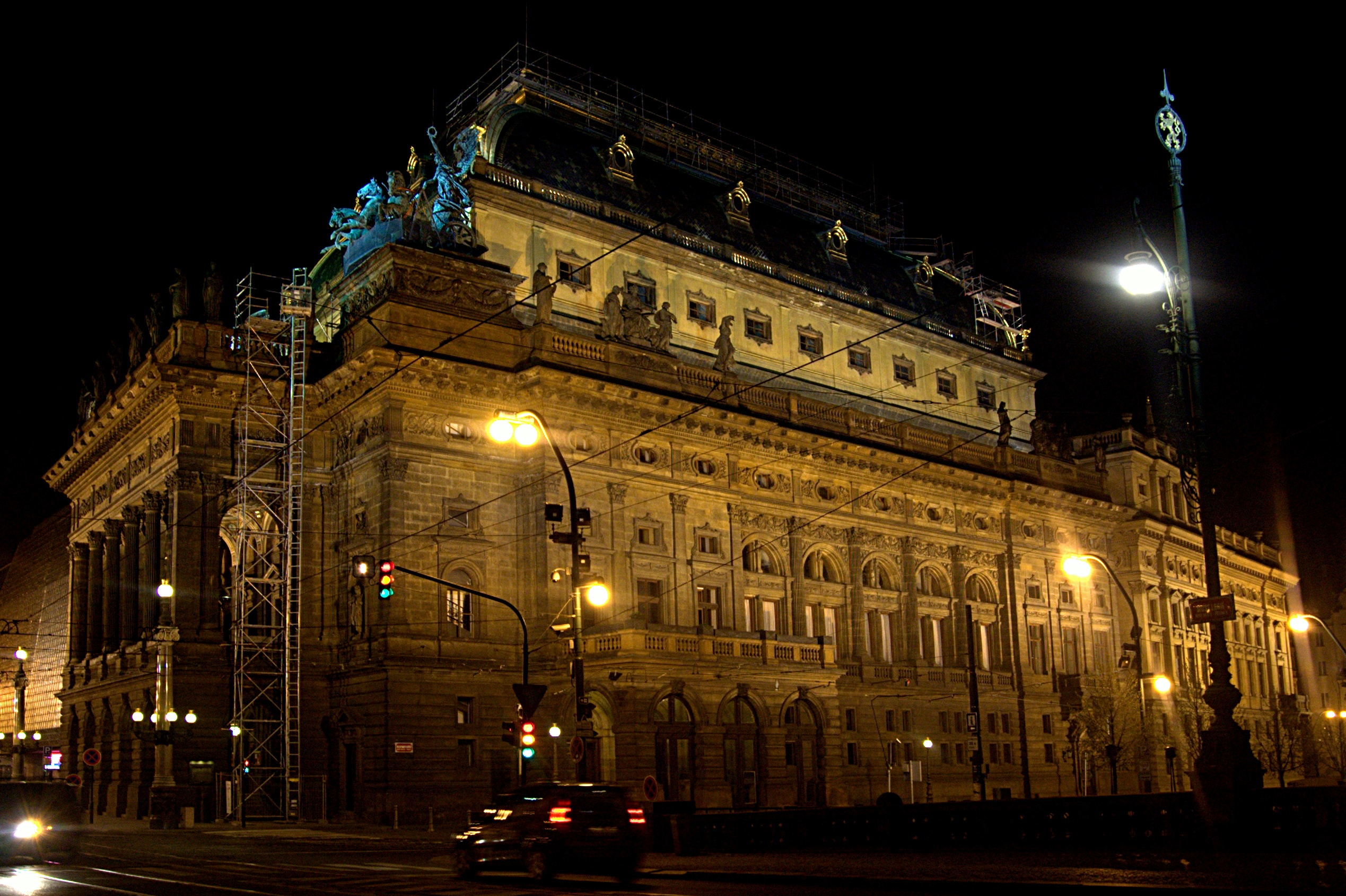 National theatre in Prague